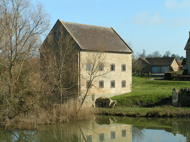 King's Mill, Nr. Marnhull A fine early C19th mill on the river Stour south of Marnhull.